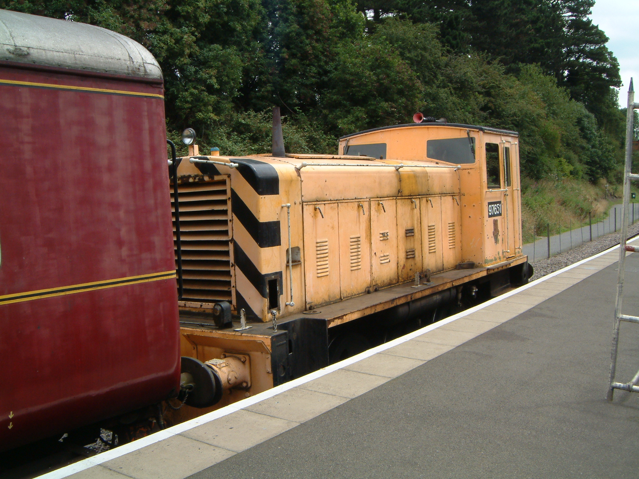 British Rail Class 97/6 No. 97651 (also known as PWM651) at Pitsford and Brampton station on the Northampton & Lamport Railway. Source: photograph taken by Amos E Wolfe on 11th August 2002.